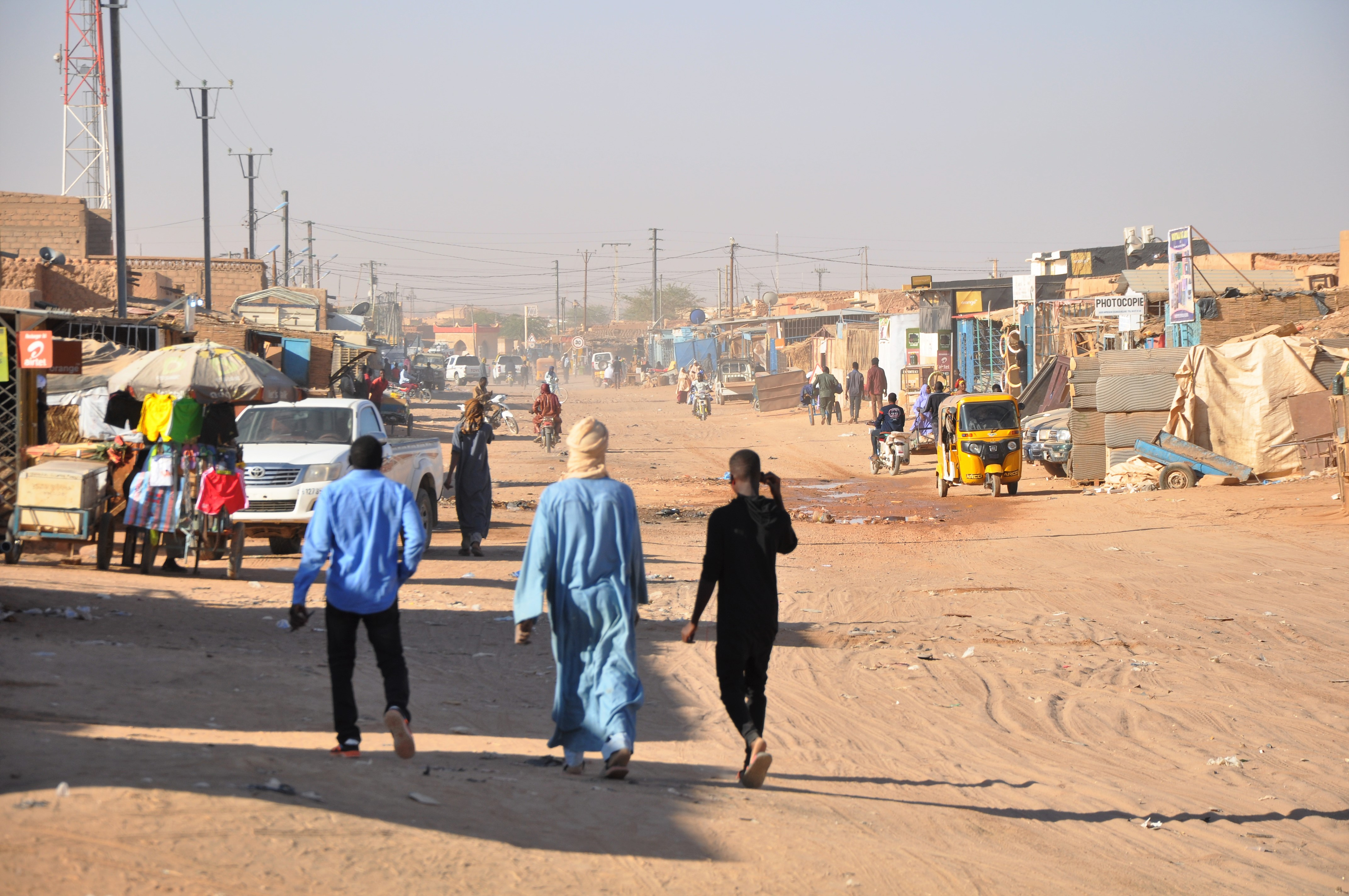 One of the main streets in Arlit, the largest city in northern Niger